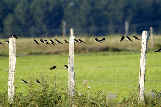 Hirundo rustica from Commanster, Belgian High Ardennes .